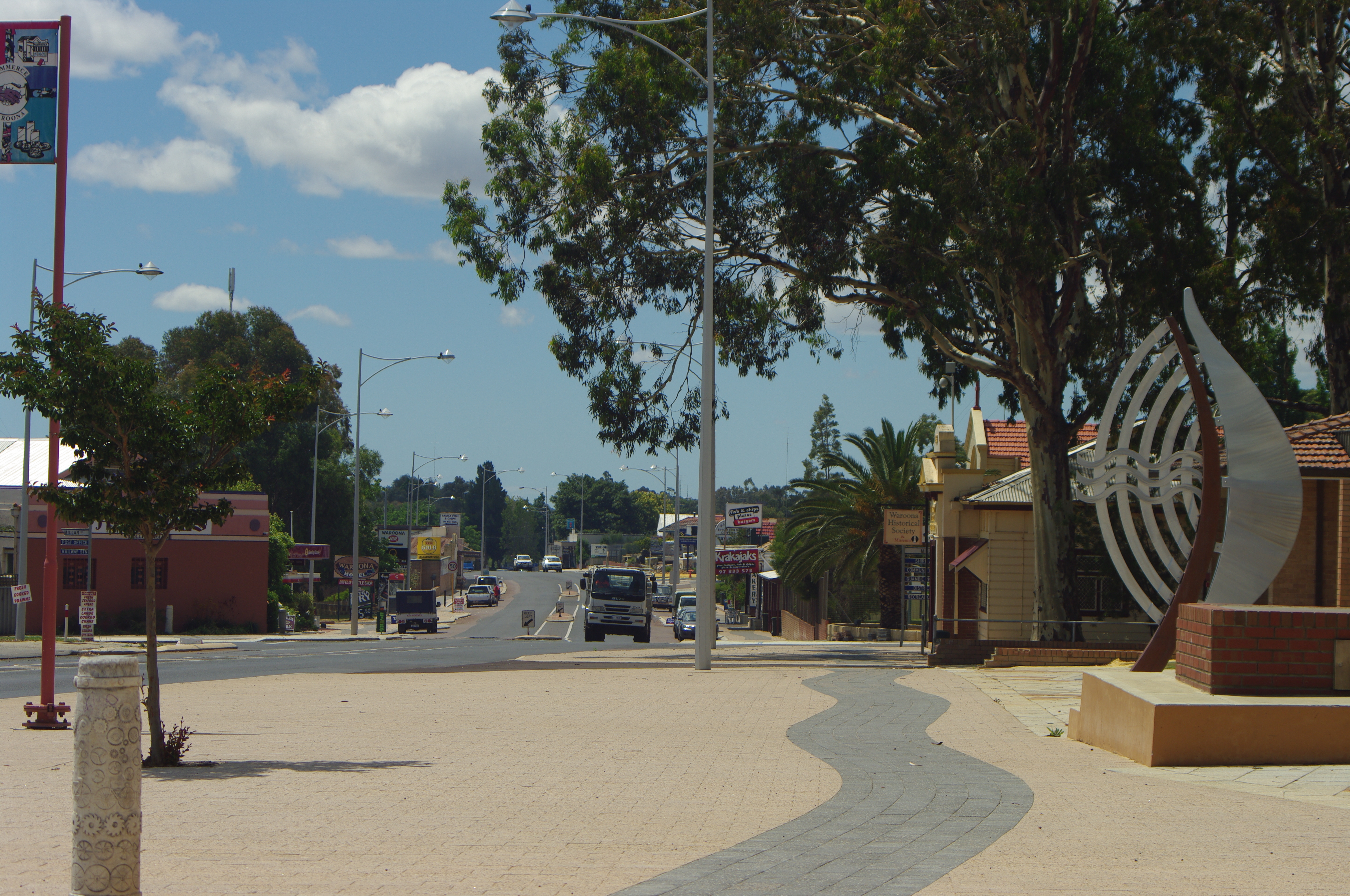 South West Highway thru the centre of Waroona, Western Australia